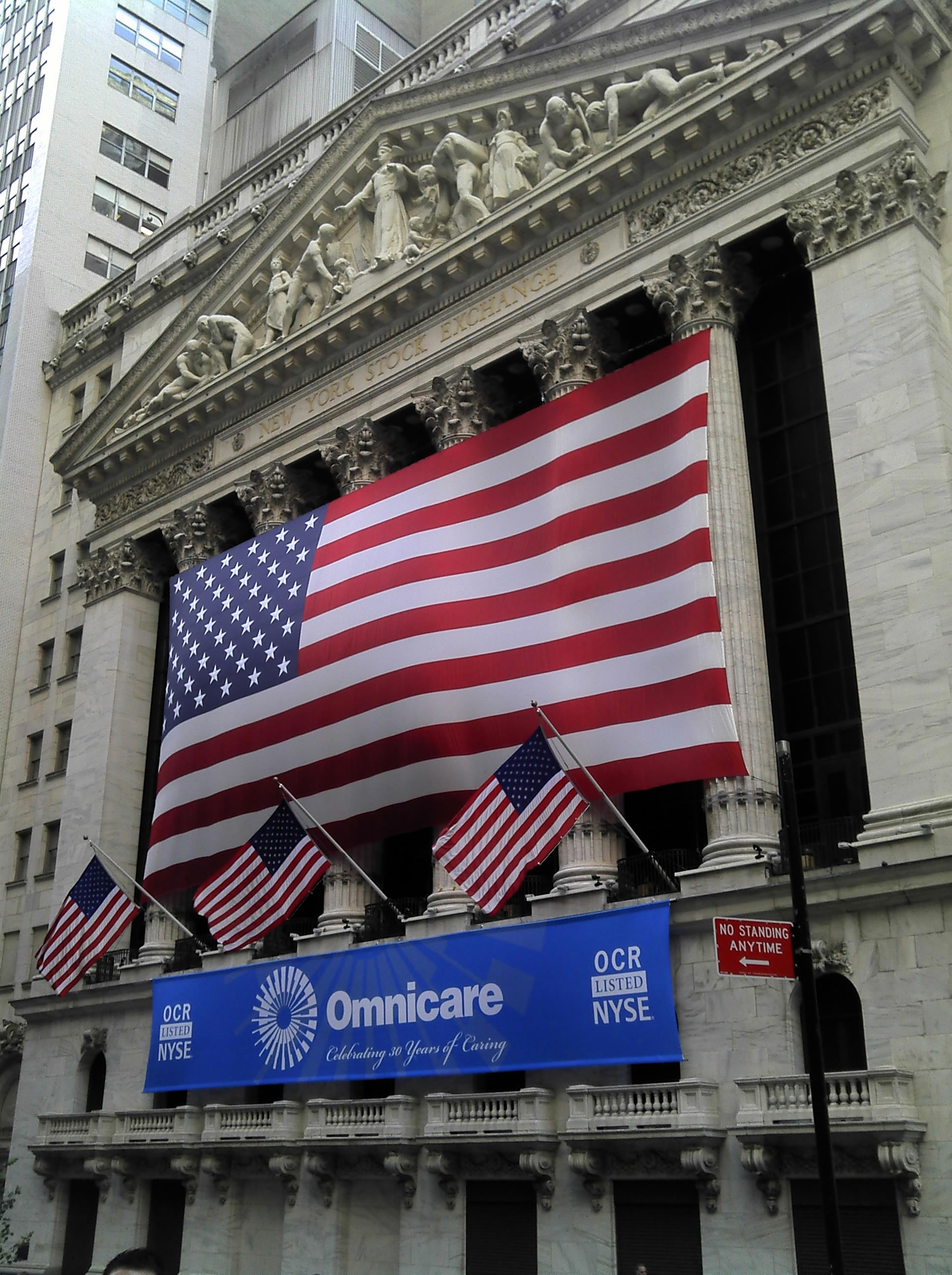 The New York Stock Exchange building on September 1st, the 30th Anniversary of Omnicare's listing.